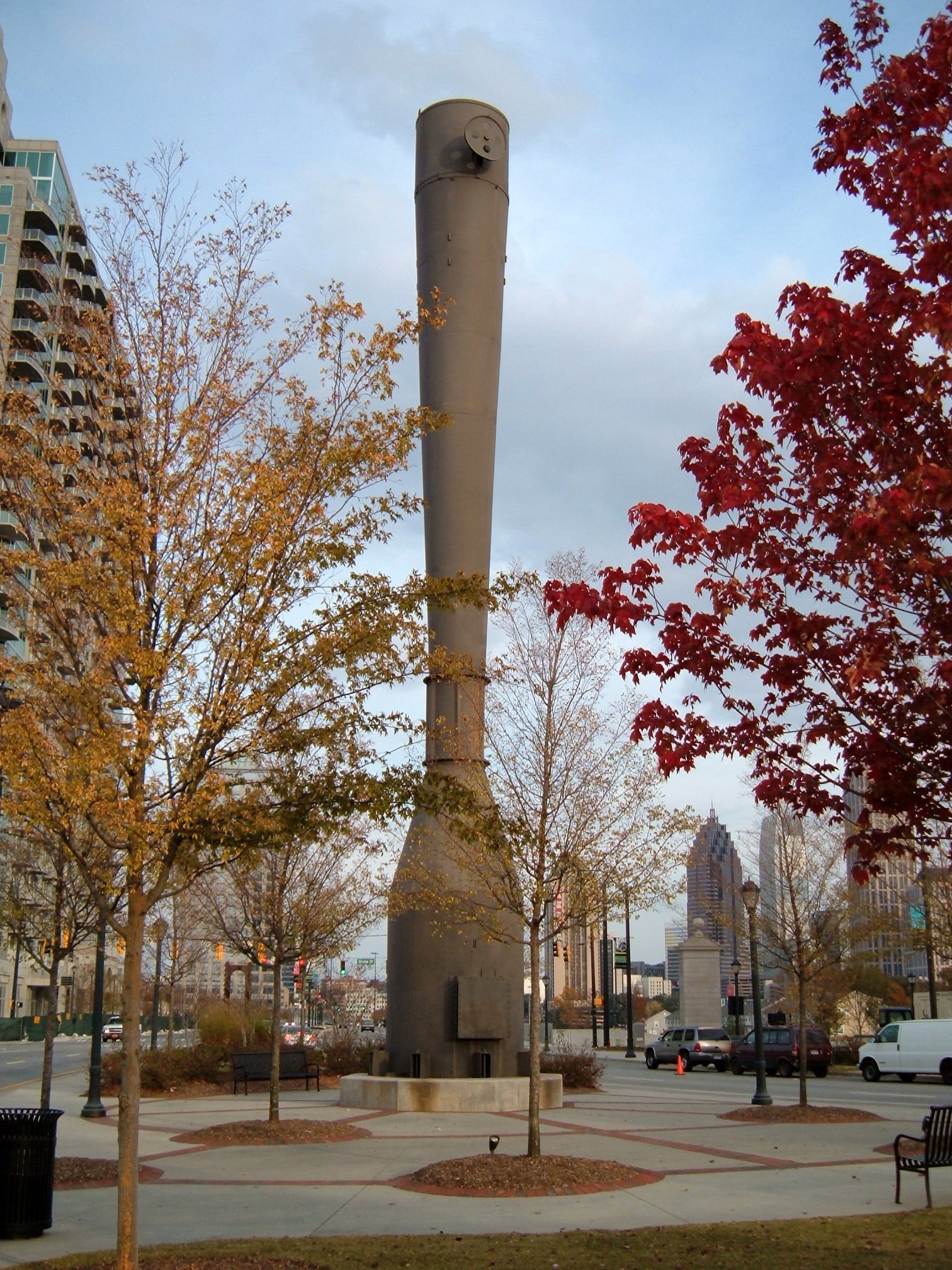 Location: Atlanta, GA, USA (statue / old factory equipment in Atlantic Station's central park)